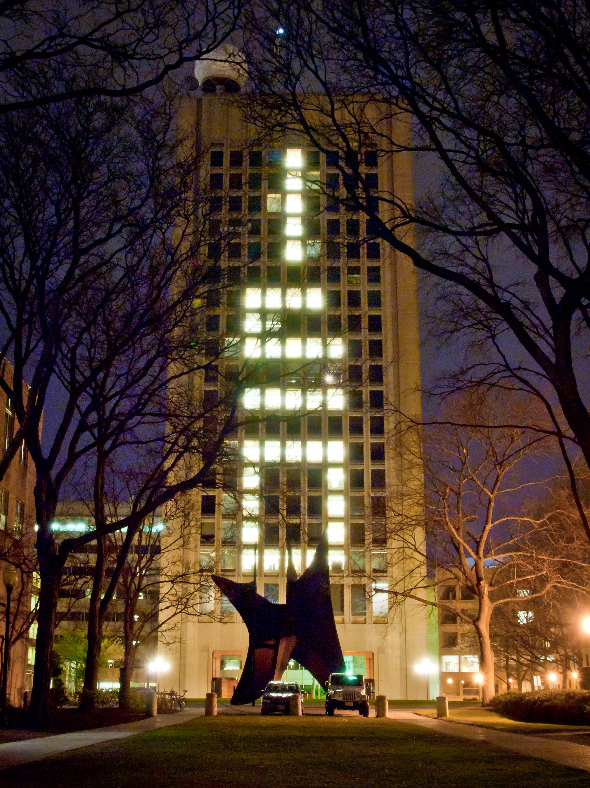 A more formal shot